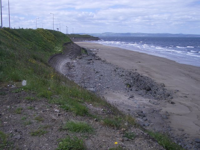 Beach at Seafield Looking northwest from the point where the Promenade joins with Seafield Road.